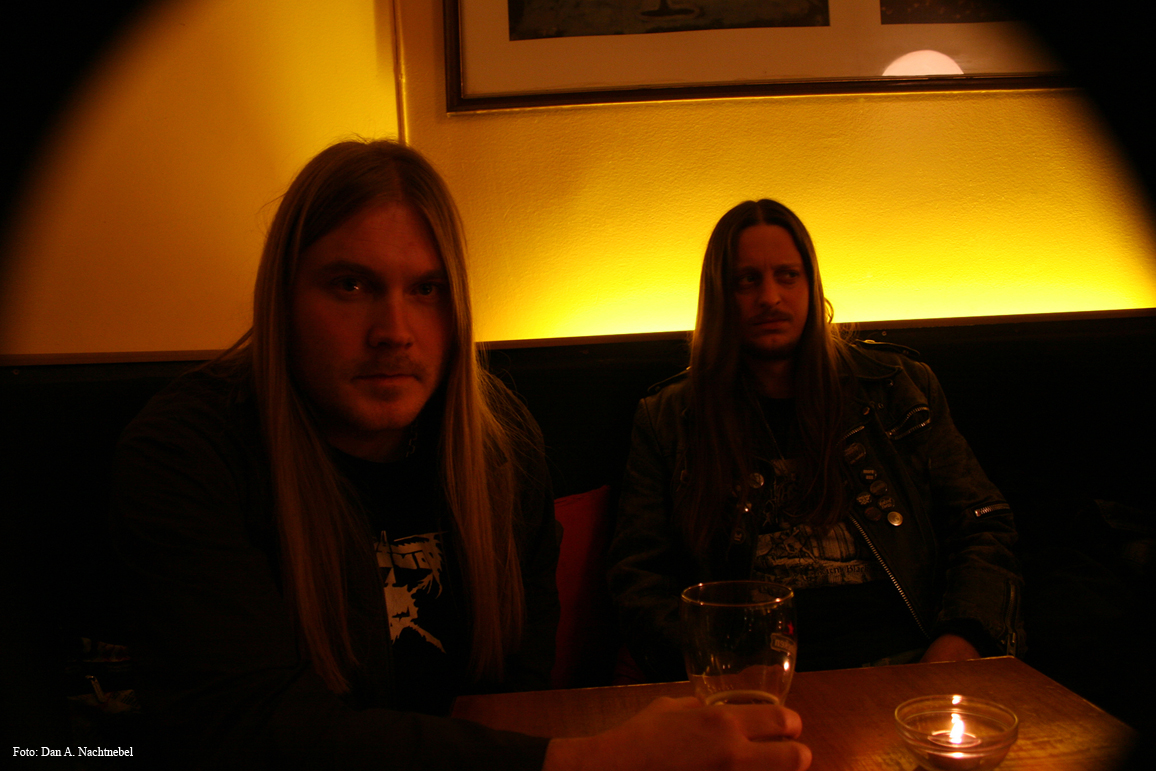 Darkthrone band in 2005 on photo Gylve "Fenriz" Nagell and Ted "Nocturno Culto" Skjellum